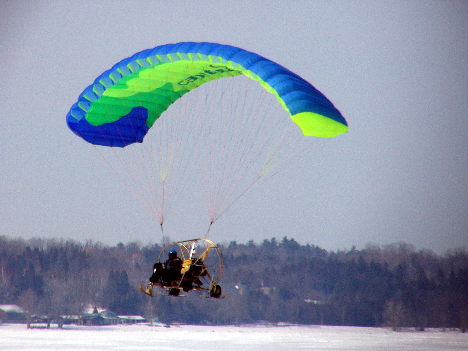 An ASAP Summit II Powered parachute at Prudhomme's Ice Fly-in, Ottawa, Ontario, Canada.